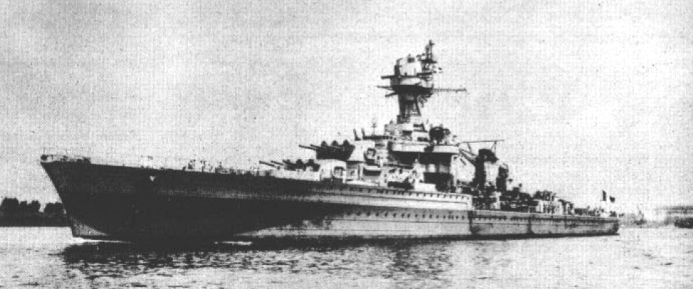 The French light cruiser Montcalm in the 1940s. Due to the Measure 22 camouflage, the photo was probalby taken after the refit at the New York Naval Shipyard, where she was modernised from July to November 1943.